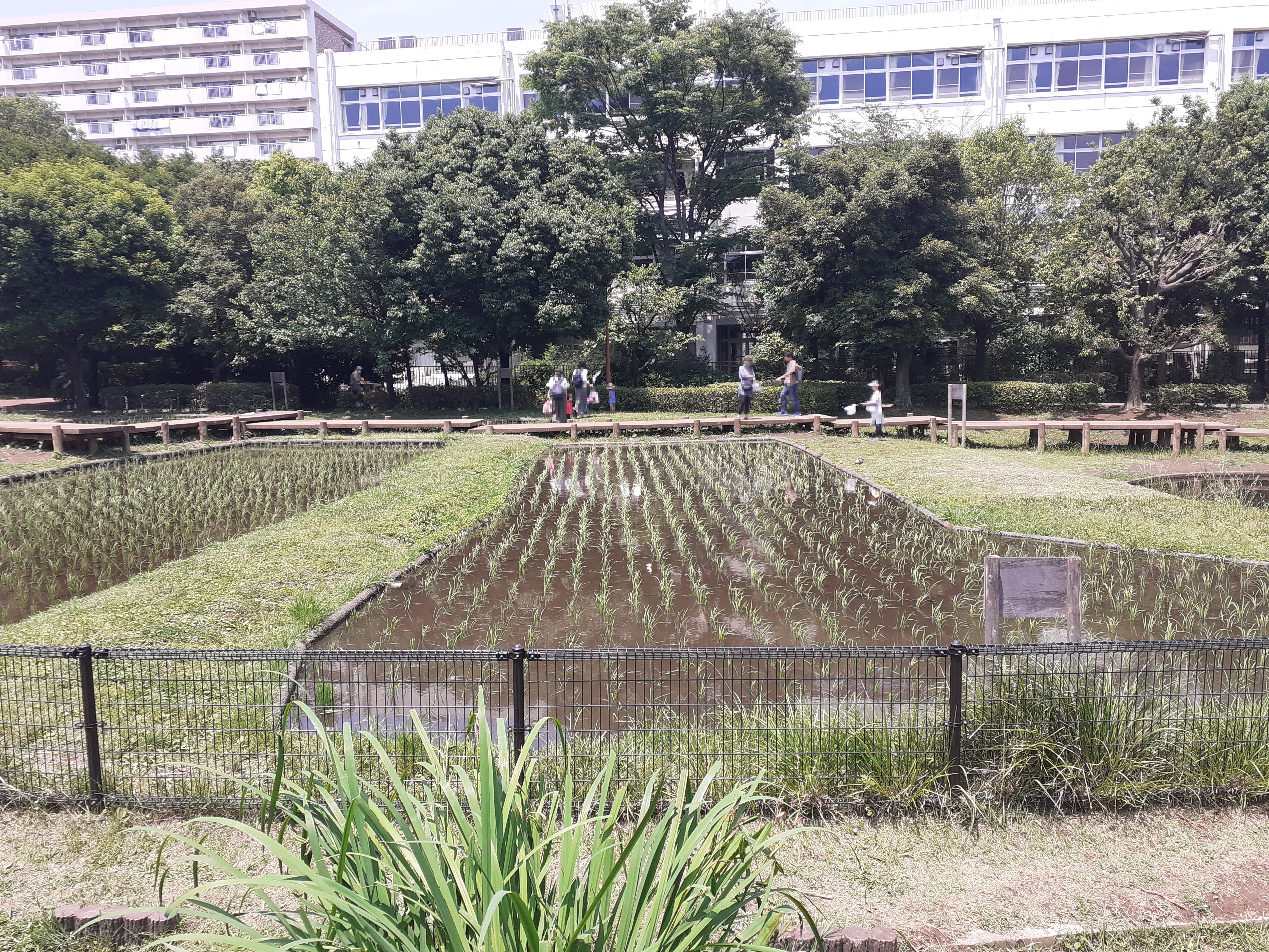 Rice paddy in Akinohi Park, Nerima, Tokyo, Japan in 2020.